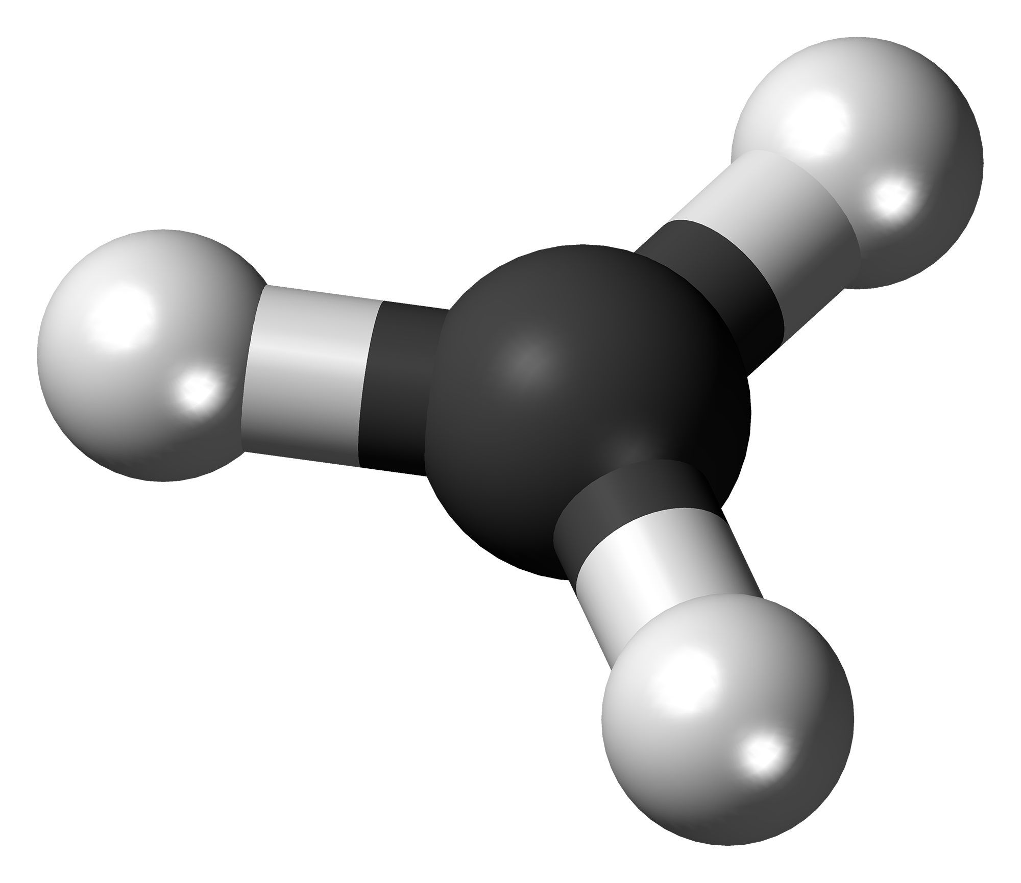 Ball-and-stick model of the methyl cation, also known as methenium, one of the simplest carbocations. Color code: Carbon, C: black Hydrogen, H: white